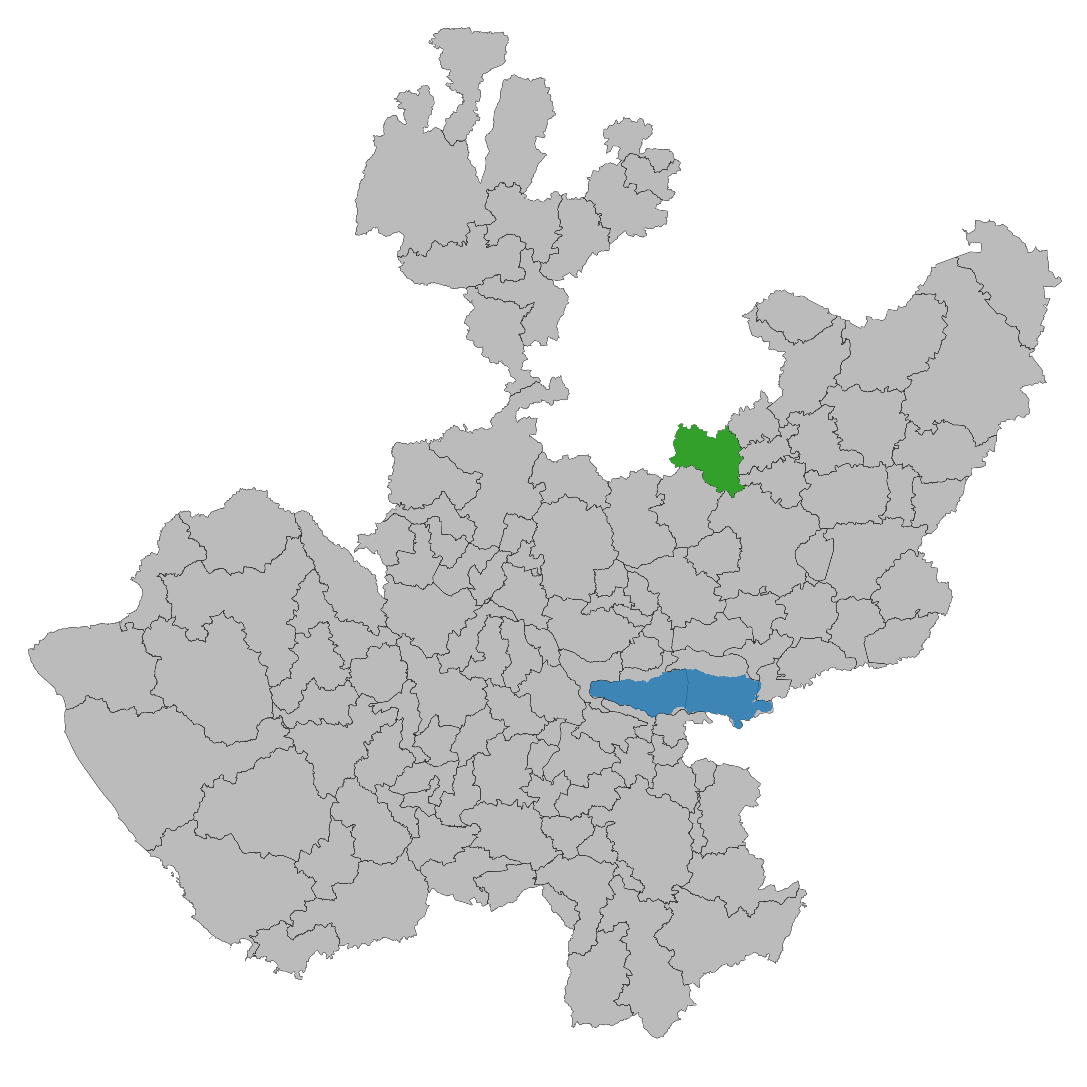 Municipality of Jalisco. Prepared with the software QGIS version 2.8.2 Wien & with information of SCINCE 2010 version 05/2013